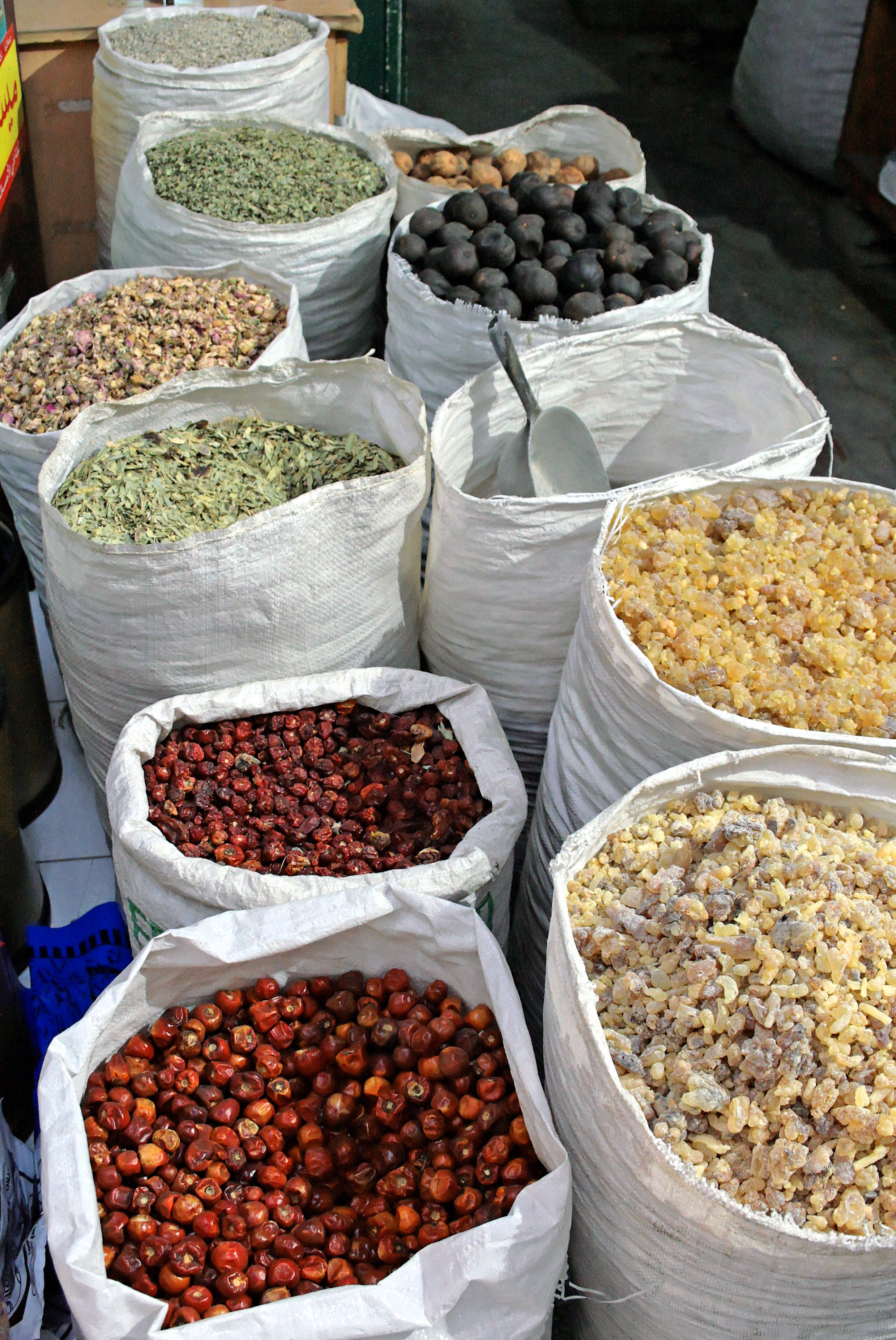 Spices - Dubai old market (old sūq)